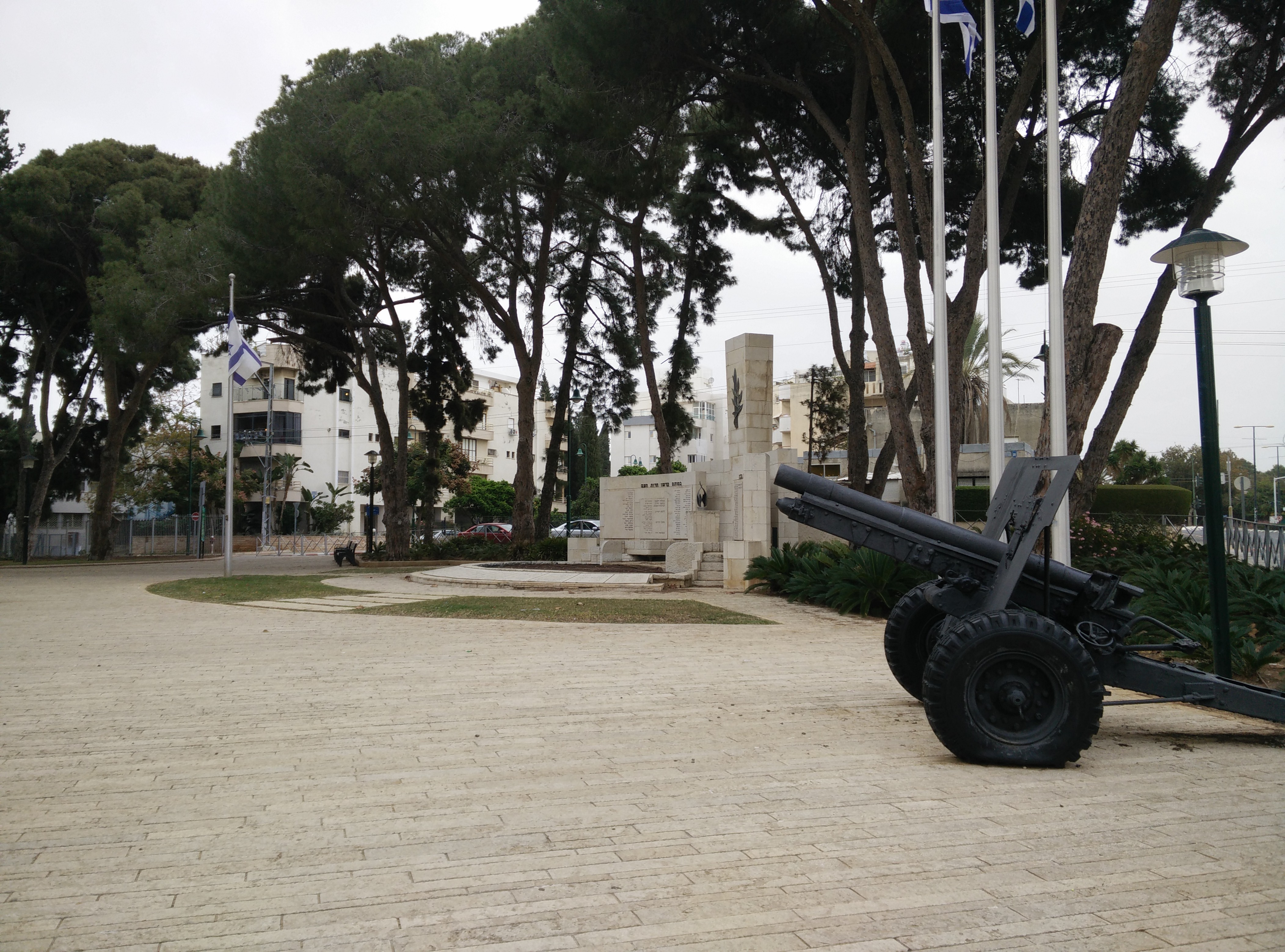 האנדרטה לנופלי מערכות ישראל שחיו בהרצליה